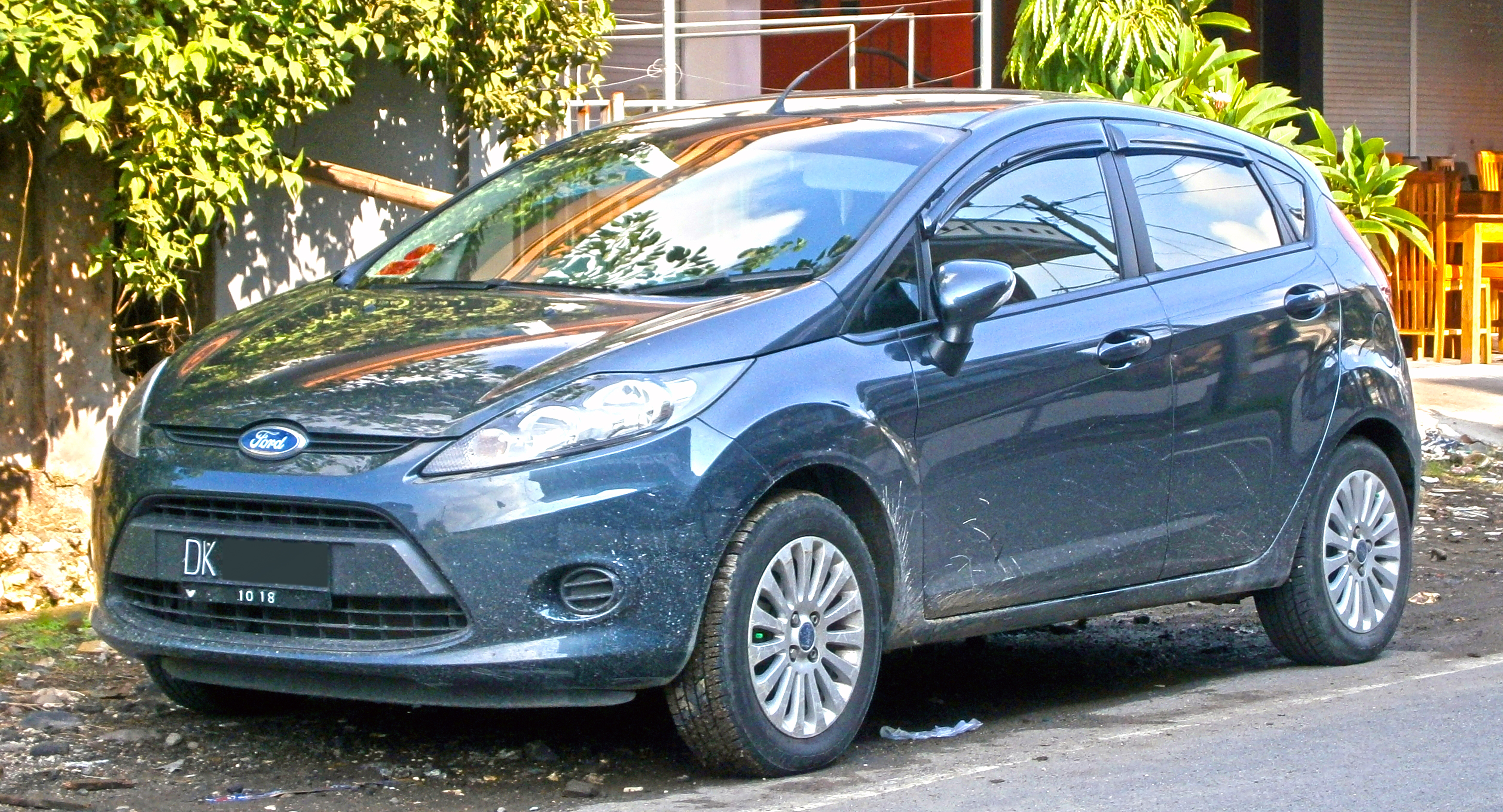 2013 Ford Fiesta 1.4L Trend in Kuta, Bali, Indonesia.